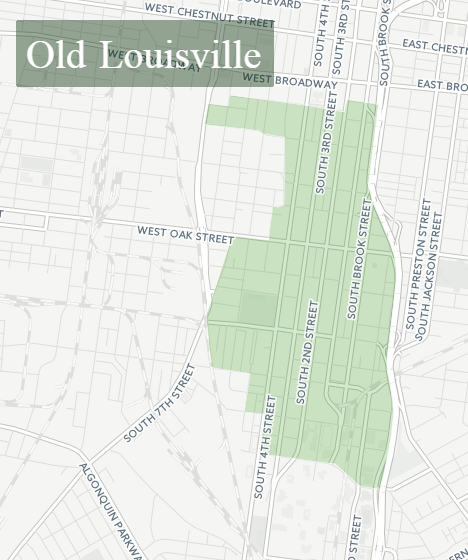 Basemap is Copyright Openstreemap contributors ( & Copyright CartoDB (